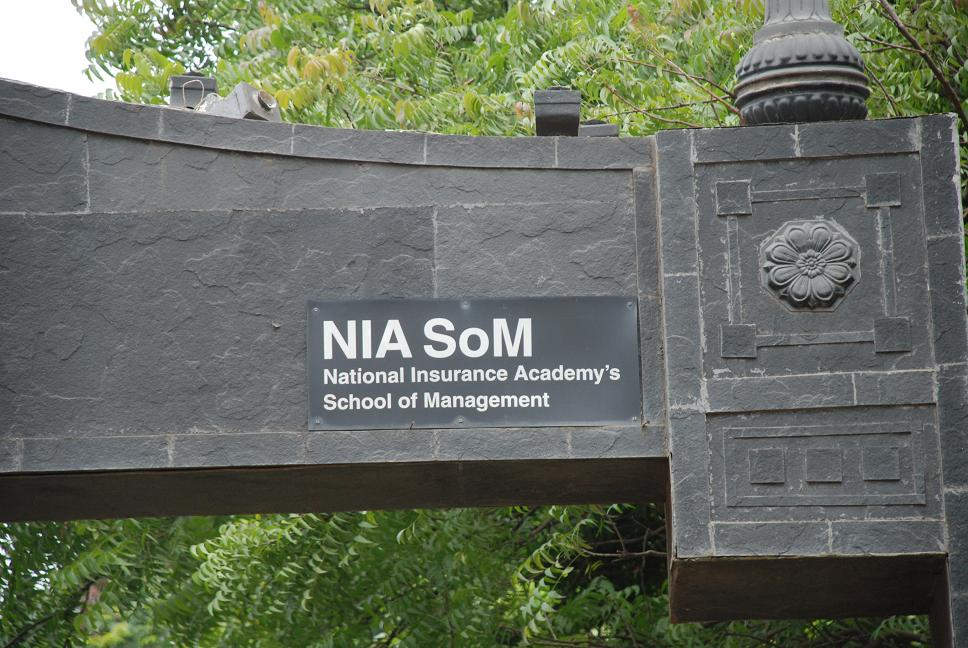 NIASoM